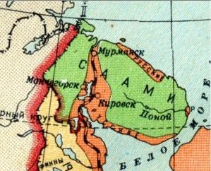 Map of distribution of the Saami languages in the Kola Peninsula. Green is Saami, Yelllow is Karelian, Red is Russian.